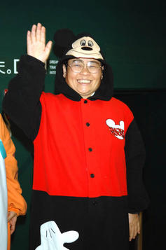 Nobuko Iwaki, a member of Lower House of japan.